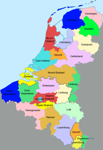 Map of the Benelux countries including their provinces, labelled with their respective Dutch names